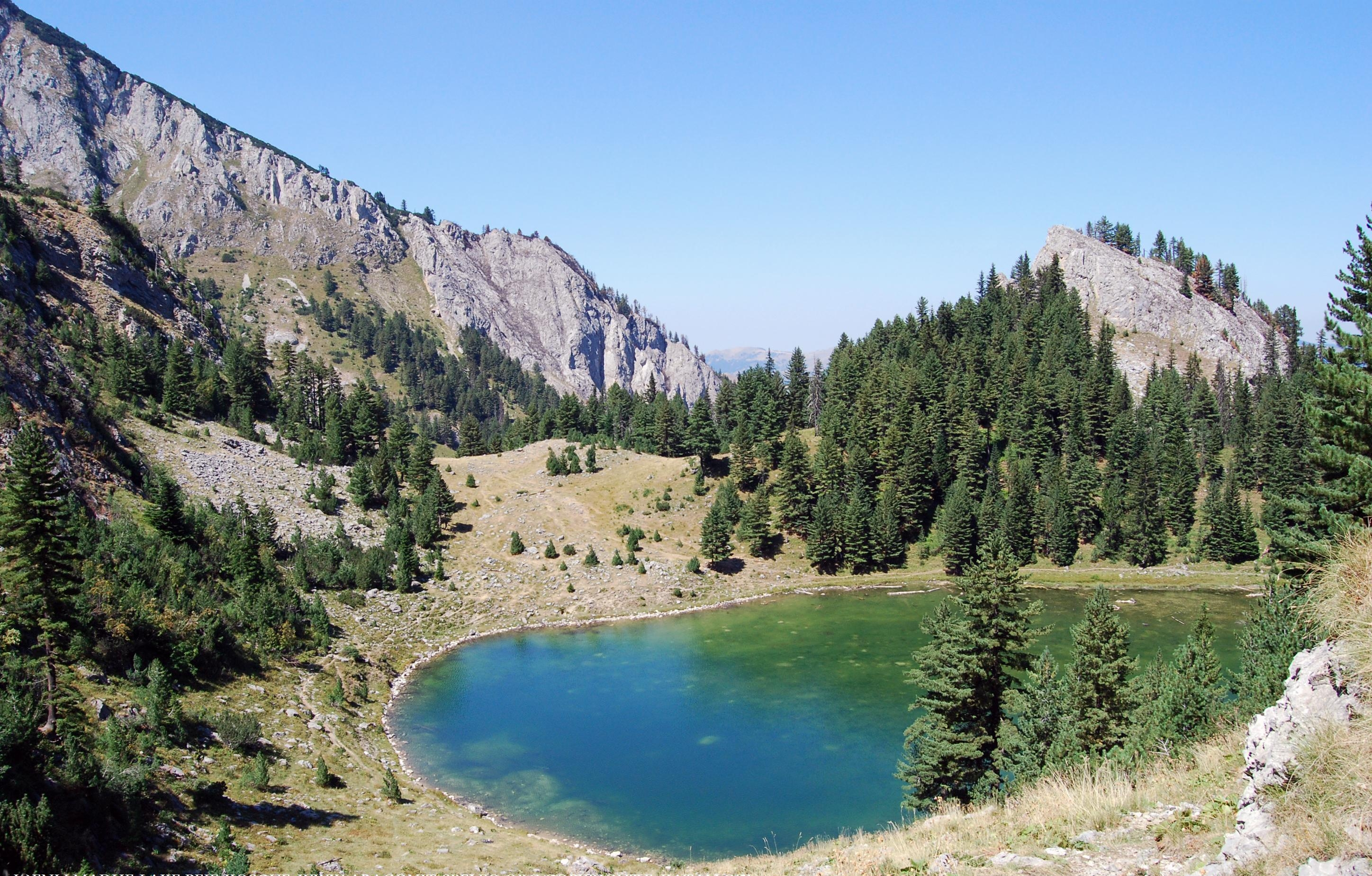 Great Lake or Kuqishte Lake (Liqeni i Kuqishtes), 1970m altitude, near city of Peja, Rugovës, Western Kosova